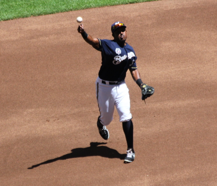 Elián Herrera (baseball) fielding for the Milwaukee Brewers